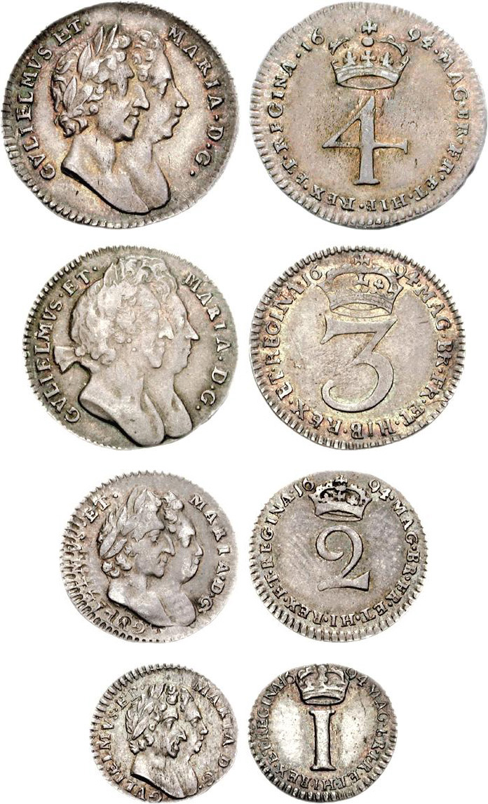 England. ORANGE. William & Mary. 1688-1694. Maundy set. Dated 1694. Includes 1d, 2d, 3d, 4d. SCBC 3446. 1d in Good VF, others in VF, all with dark iridescent toning.